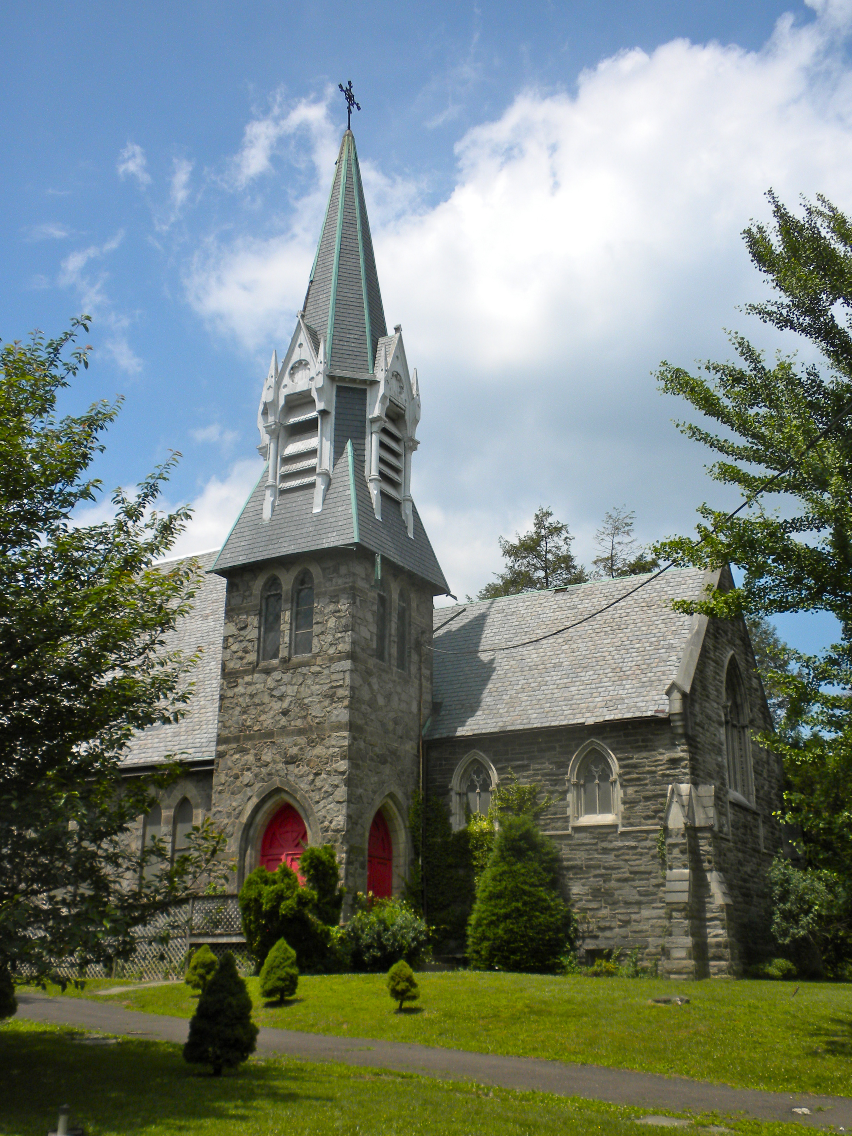 St. Peter's Episcopal Church of Germantown on NRHP since September 5, 1985. At 6000 Wayne Avenue in Germantown neighborhood of Northwest Philadelphia. Currently closed and for sale.